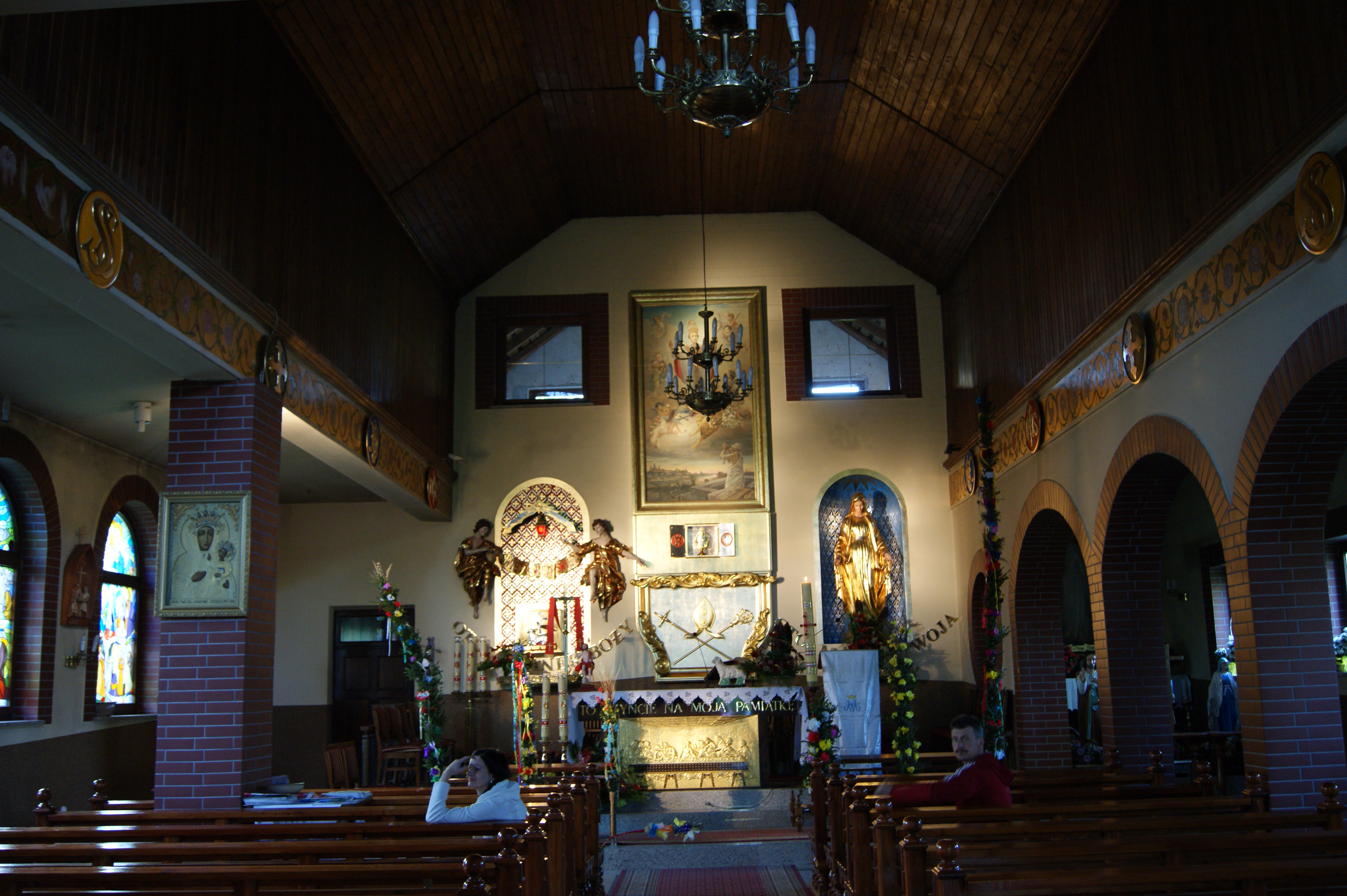 StStanislaus of Szczepanów Church (inside), 122 Kantorowicka street, Nowa Huta, Krakow, Poland